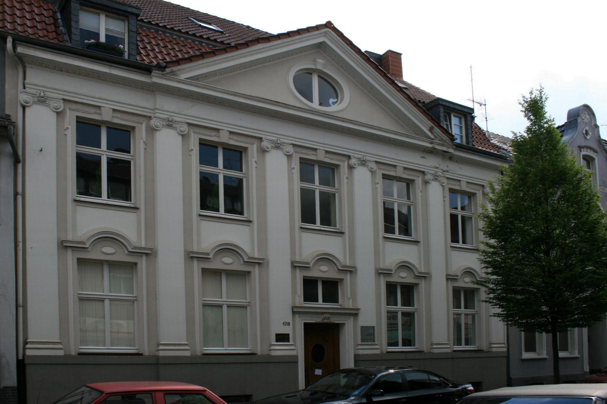 Cultural heritage monument No. K 076 in Mönchengladbach